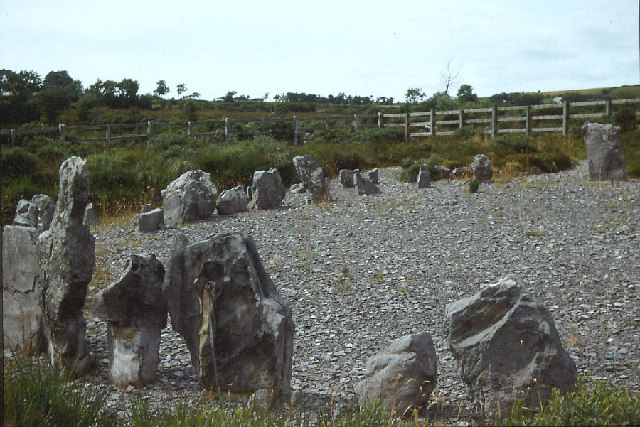 Drumskinny Stone Circle and Alignment. The alignment of 24 stones extends south from the circle which is 12.8m in diameter and originally had 39 stones.